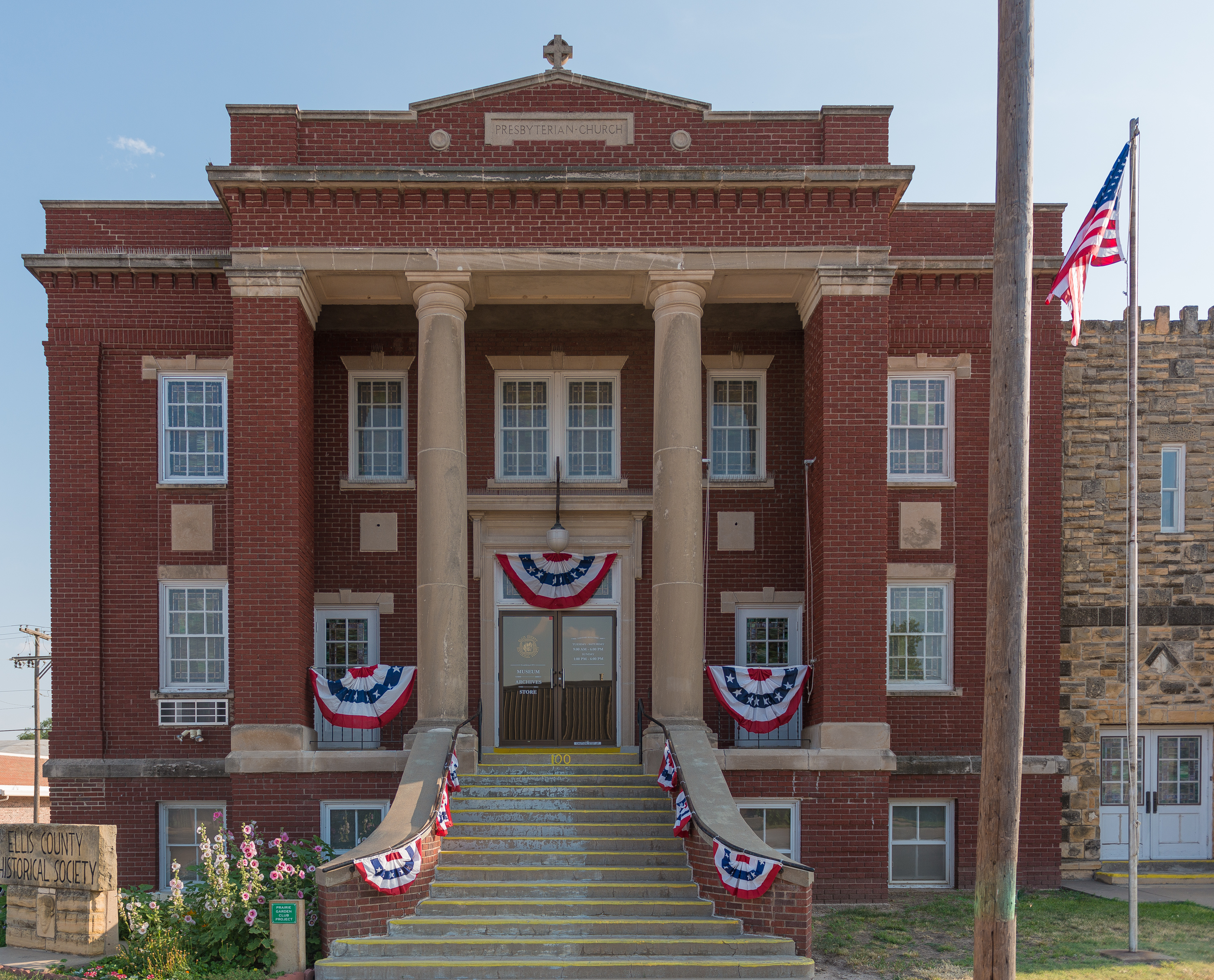 Ellis County Historical Society, 100 W. 7th St. Hays (the NRHP-listed First Presbyterian Church is next to this building).